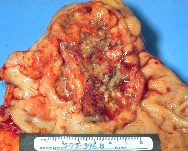 ID#: 61 Description: Gross pathology of adenocarcinoma, stomach Gastric adenocarcinoma with ulcerated surface and rolled border. Surgical specimen. Content Providers(s): CDC/Dr. Edwin P. Ewing, Jr. Creation Date: 1973 Copyright Restrictions: None - This image is in the public domain and thus free of any copyright restrictions. As a matter of courtesy we request that the content provider be credited and notified in any public or private usage of this image.